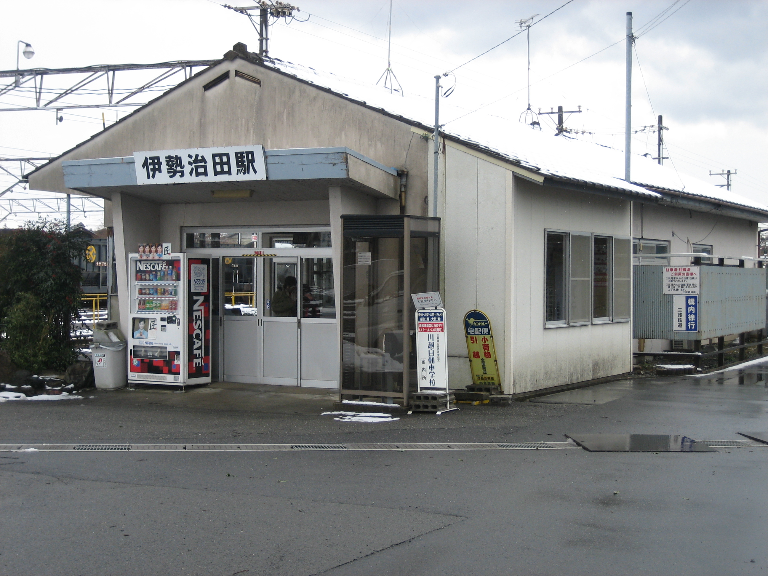 (Japan)Sangi Railway Company Isehatta Station